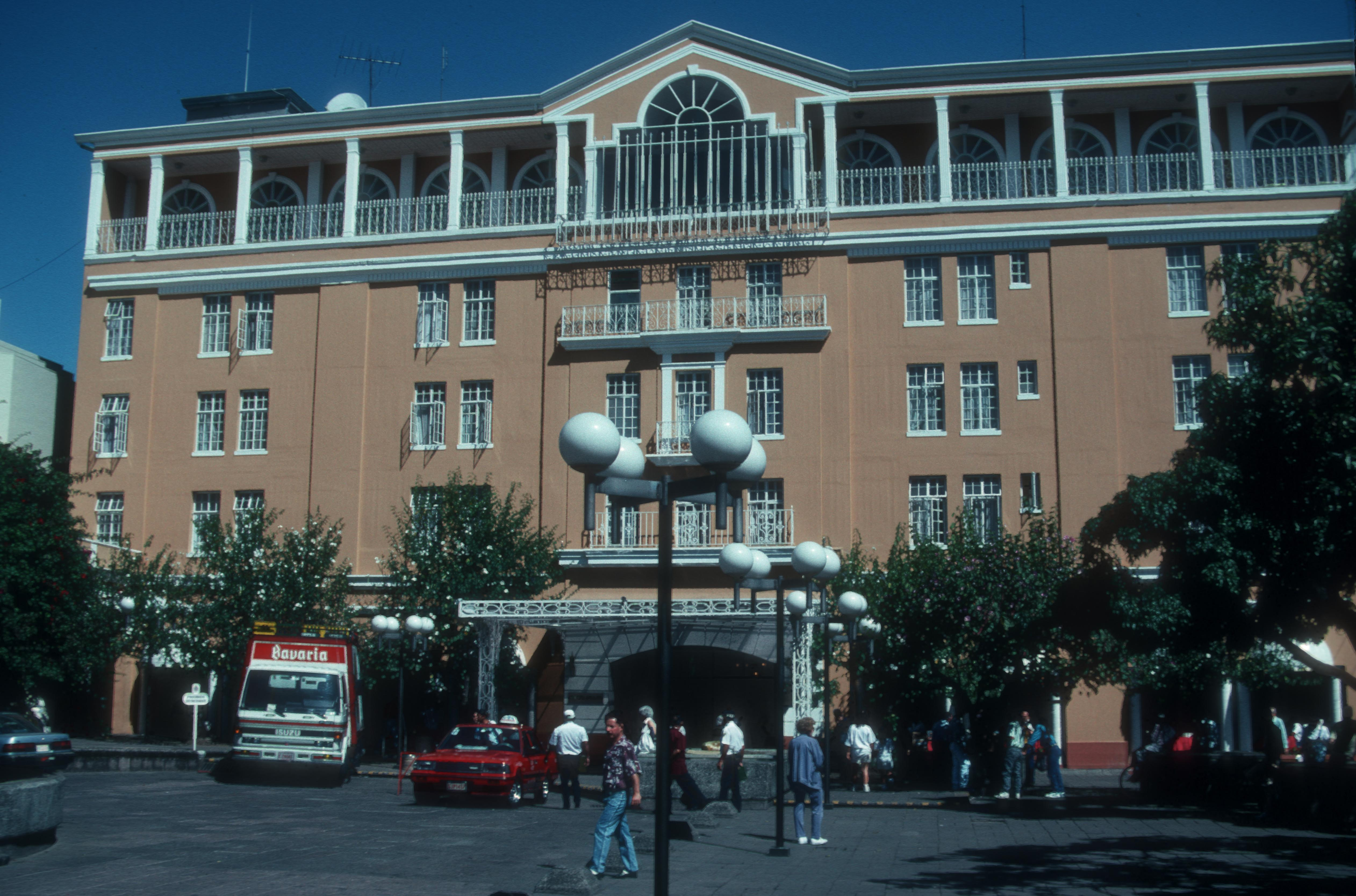 OLDEST HOTEL IN COSTA RICA OPENED IN 1930 AND VERY ELEGANT HISTORIC HOTEL